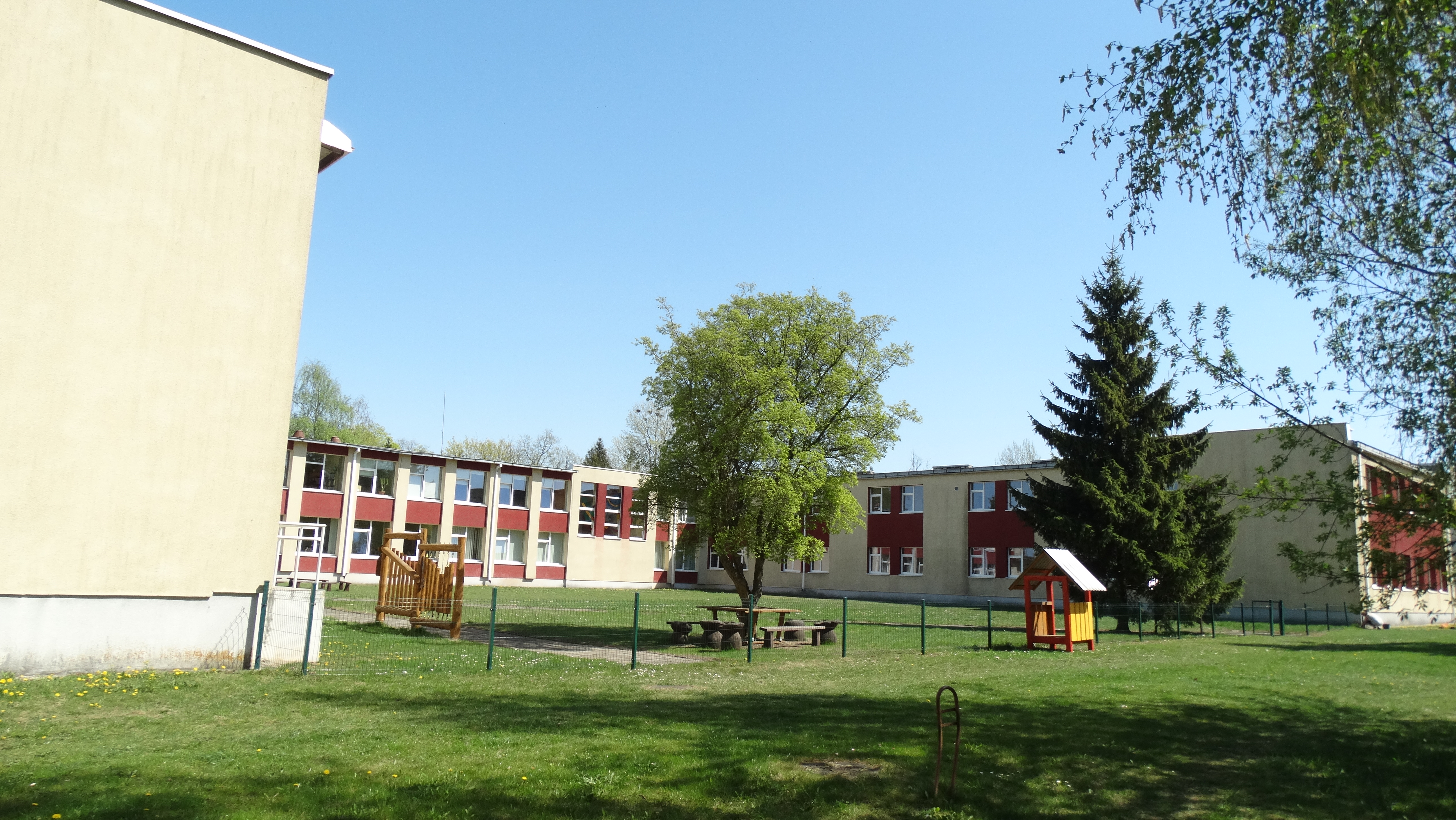 Smilgiai, gymnasium, Panevėžys district, Lithuania